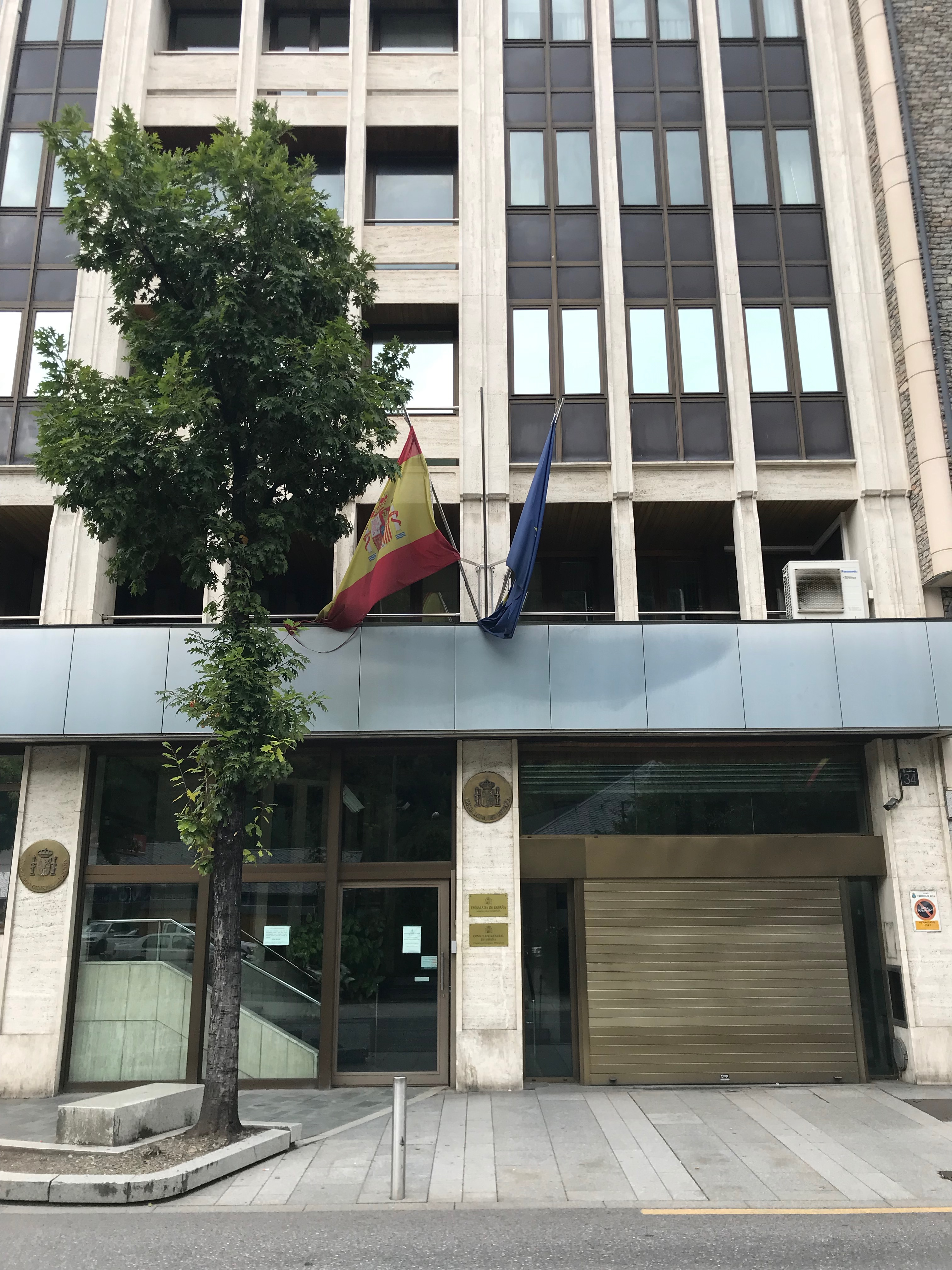 Embassy of Spain in Andorra la Vella